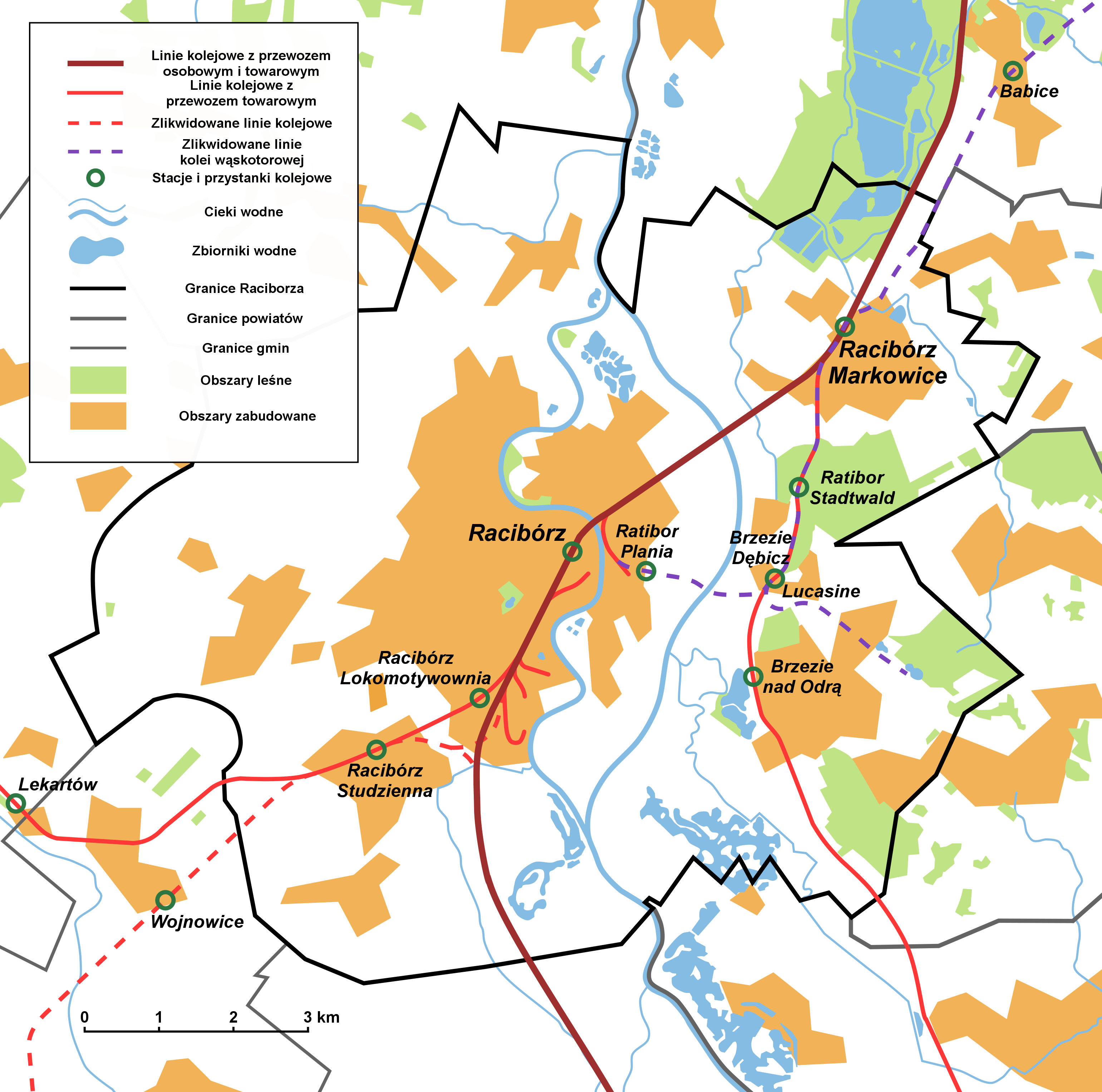 Plan of railways in Racibórz.